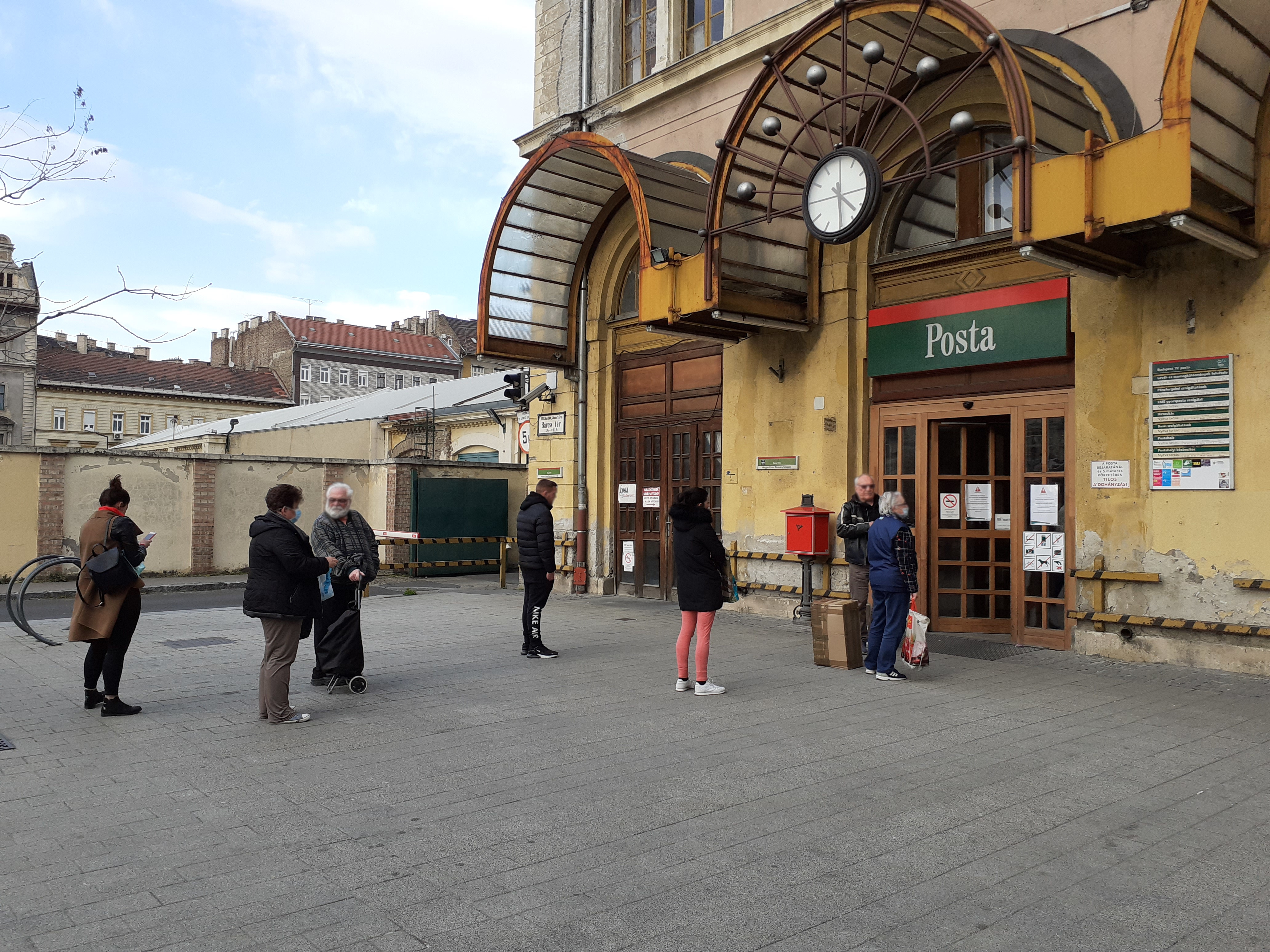 Queue outside of a post office in Budapest during the COVID-19 epidemic